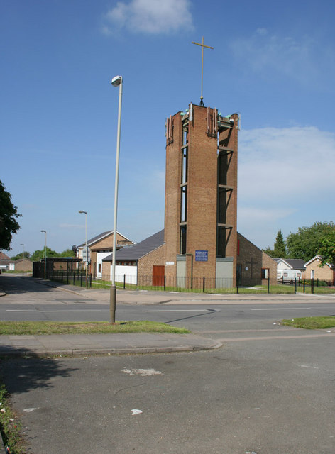 St Hugh's parish church, Sturdee Road, Eyres Monsell, Leicester, seen from the southwest